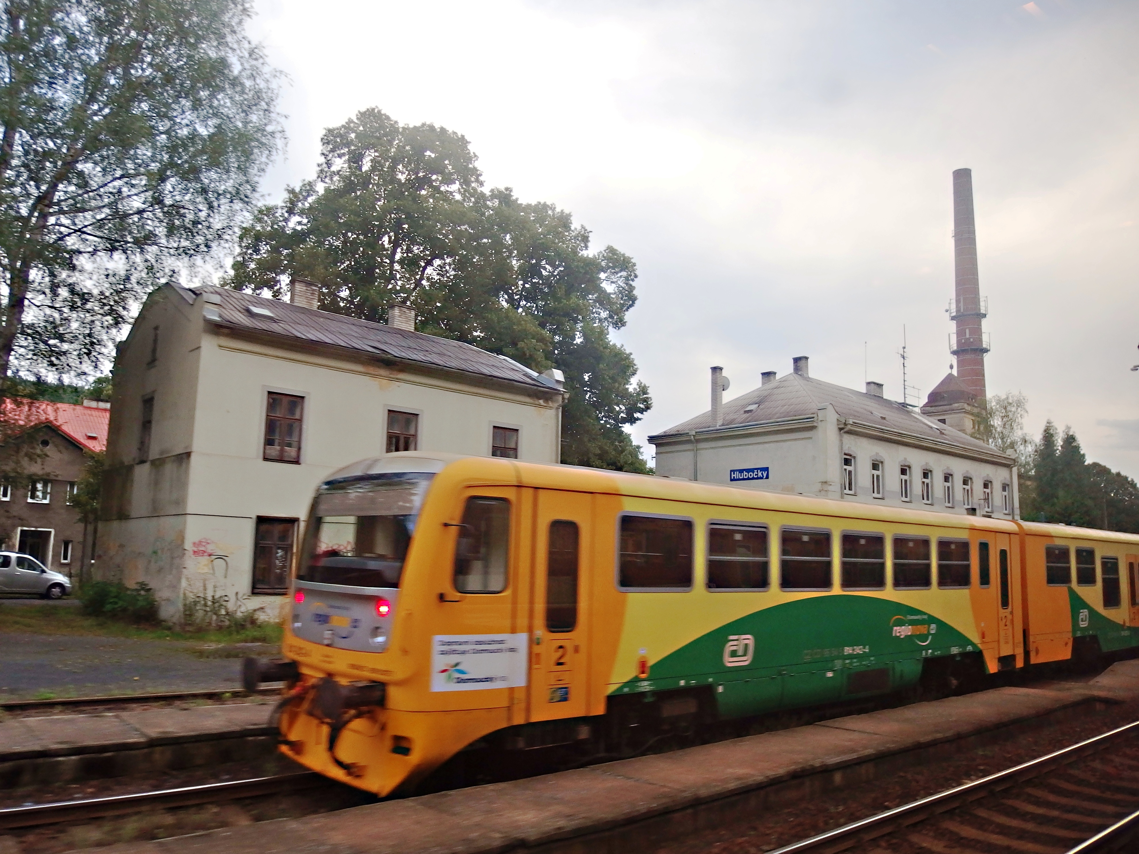 Hlubočky, Olomouc District, Czech Republic.